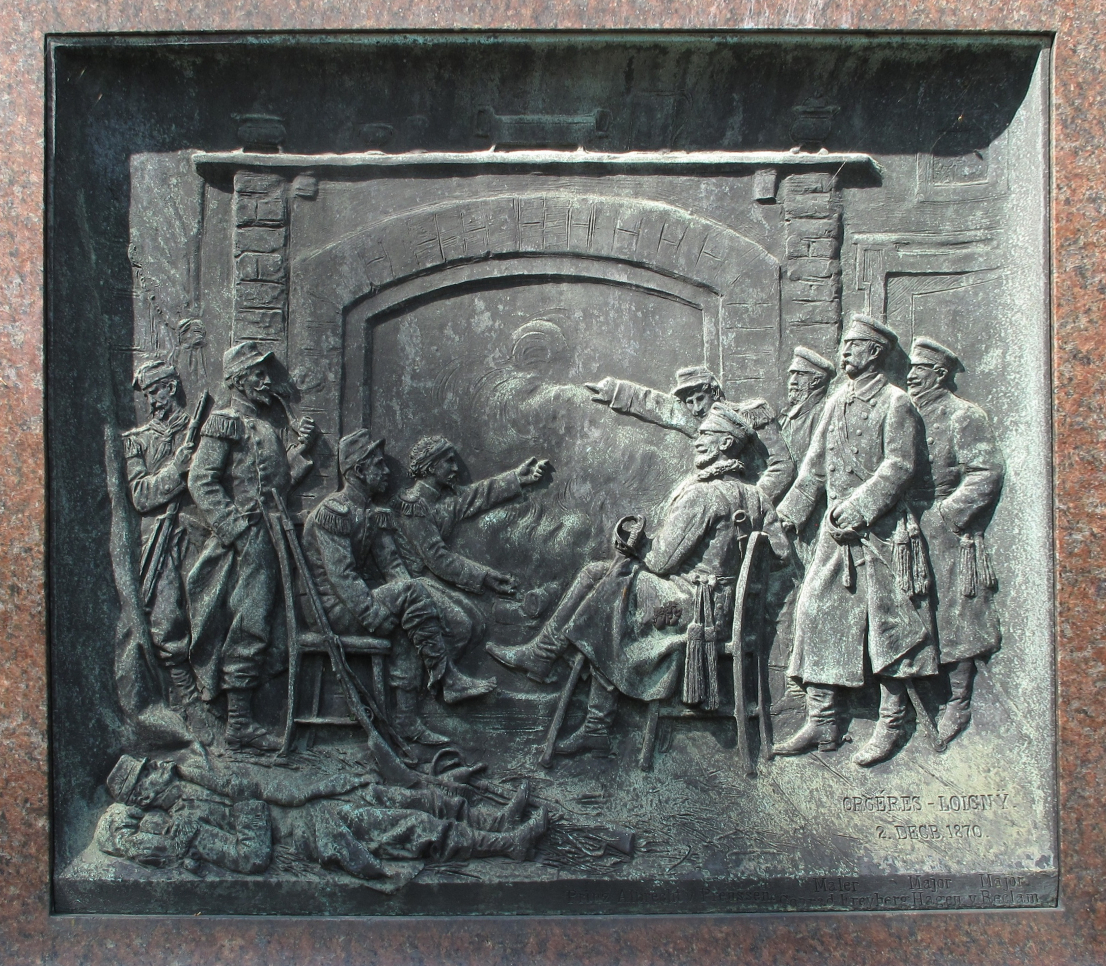 Relief showing a scene of Battle of Loigny-Poupry (here Dec. 2, 1870) on the Prinz-Albrecht-von-Preußen-Denkmal, a monument commemorating to Prince Albert of Prussia (1809–1872). The monument shows Prince Albert in 1870 as General of the Cavalry in the Franco-Prussian War. The pedestal-reliefs depict scenes from the Battle of Sedan and the Battle of Loigny-Poupry.The monument was created in 1901 by the german sculptors Eugen Boermel and Conrad Freyberg. It is located at the northern end of the Schloßstraße on the corner to the Spandauer Damm in Berlin-Charlottenburg.